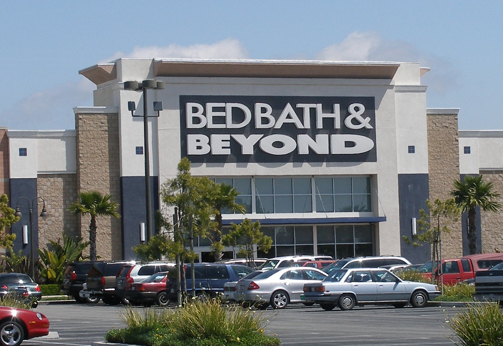 A Bed Bath and Beyond store in a shopping center next to State Route 1 (Oxnard Boulevard) in Oxnard.